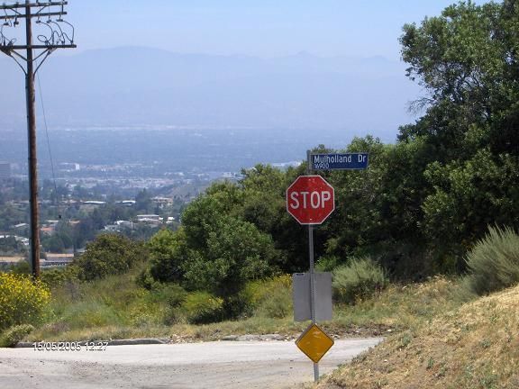 Mulholland Drive above the San Fernando Valley. Foto zelf gemaakt.